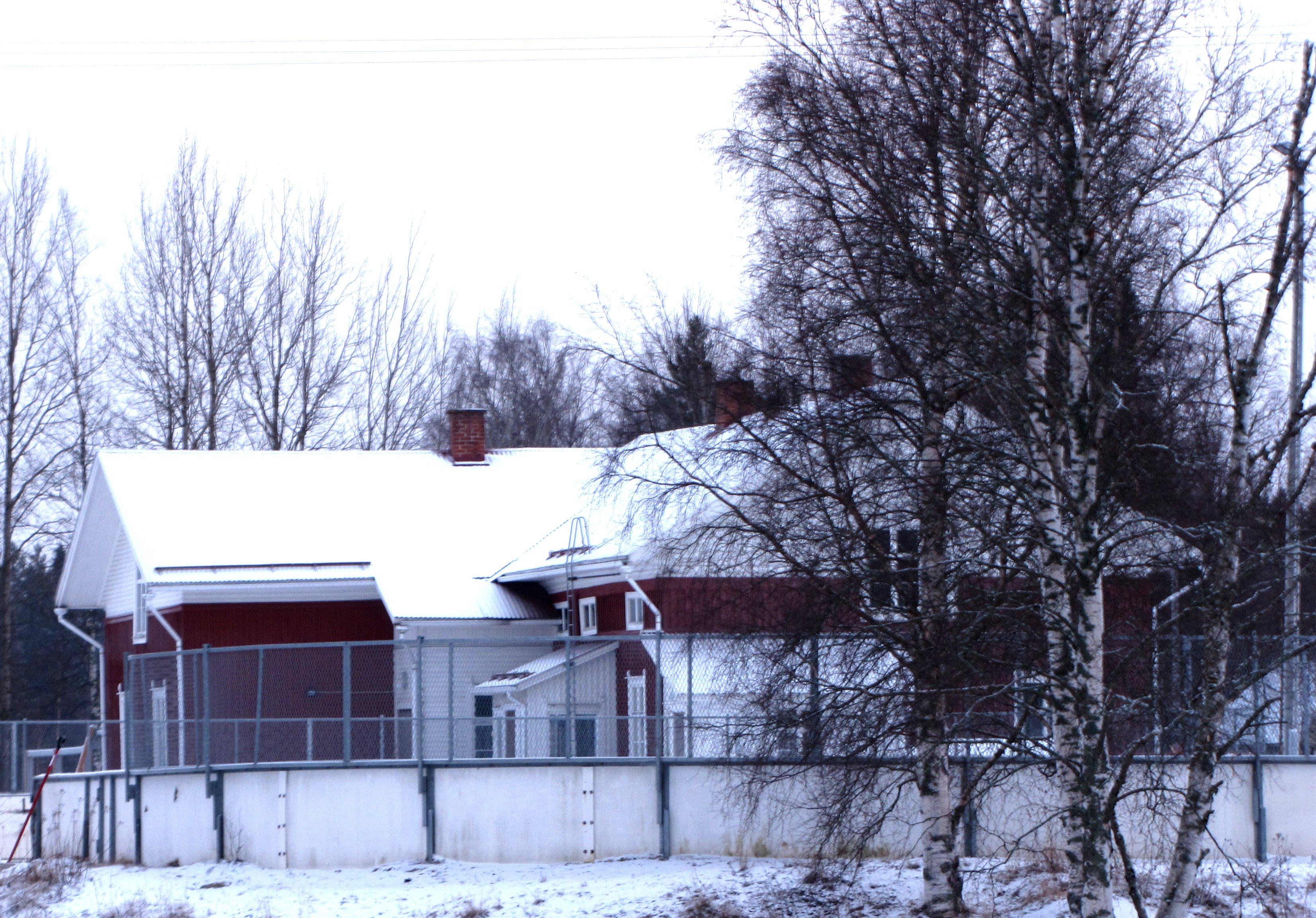 Old part of Koskue elementary school, Jalasjärvi, Finland.